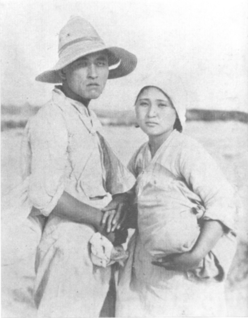 Promotional poster for the Na Woon-gyu (1902 – 1937) film, Imjaeobtneun naleutbae (1932).